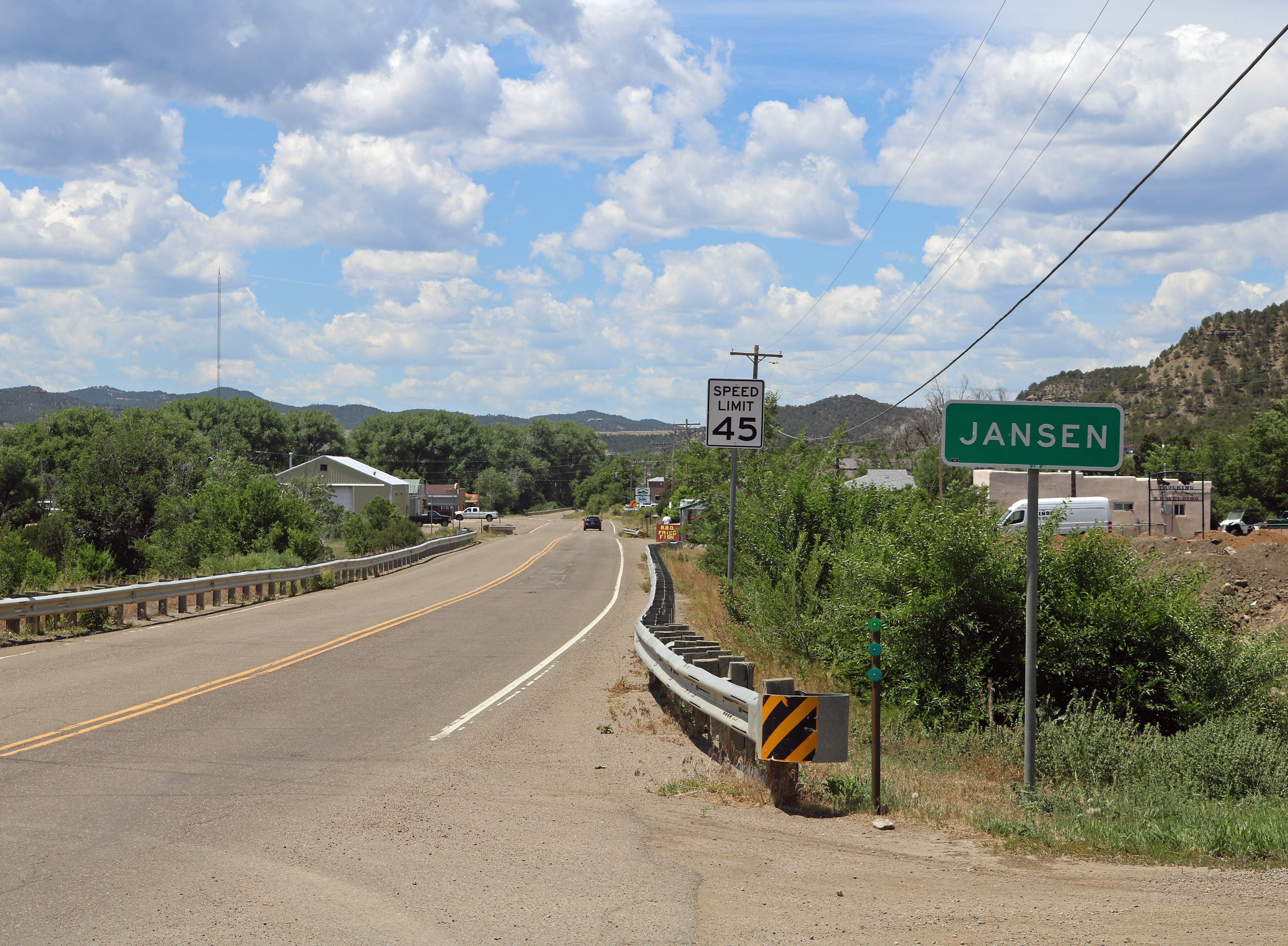 A view of Jansen, Colorado in Las Animas County. The view is looking west along Colorado State Highway 12 from the west side of Trinidad.